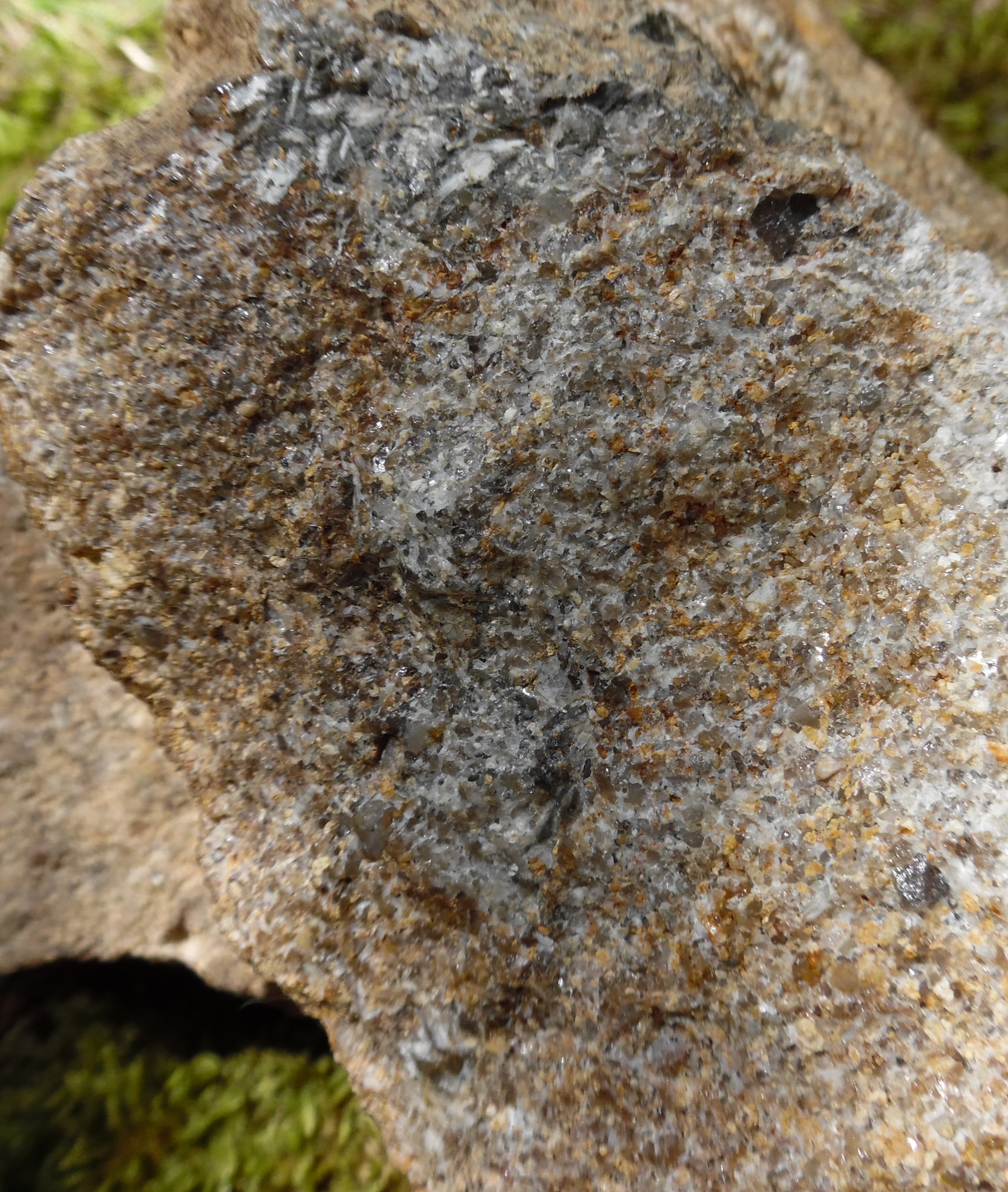 Rock sample of Hettangian arkose (basal transgression onto the Massif Central) from Nontron, Dordogne, France. The top is very baryte-rich.